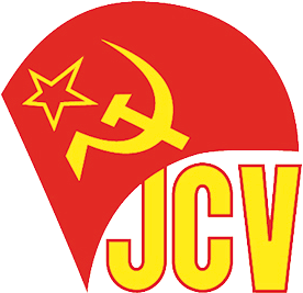 Logo of the Communist Youth of Venezuela